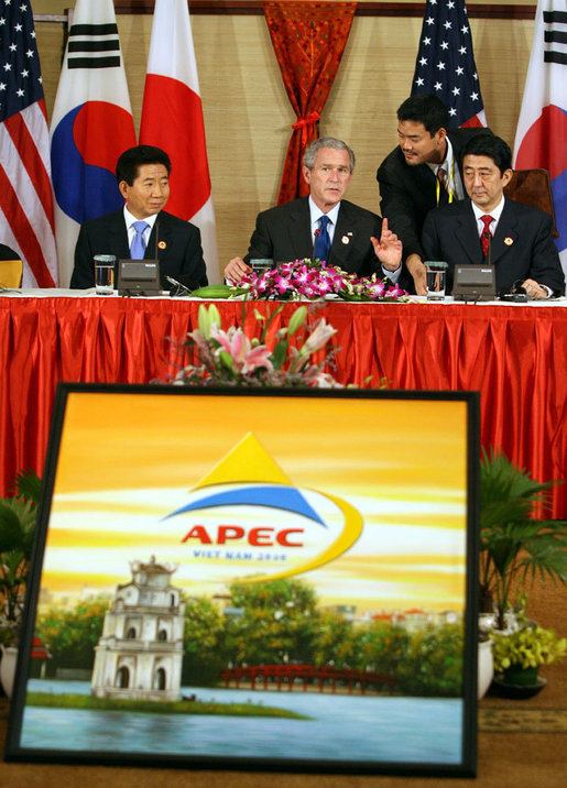 U.S. President George W. Bush pauses during a trilateral meeting Saturday, Nov. 18, 2006, with Shinzo Abe, right, Prime Minister of Japan, and President Roh Moo-Hyun, of the Republic of Korea. White House photo by Eric Draper.